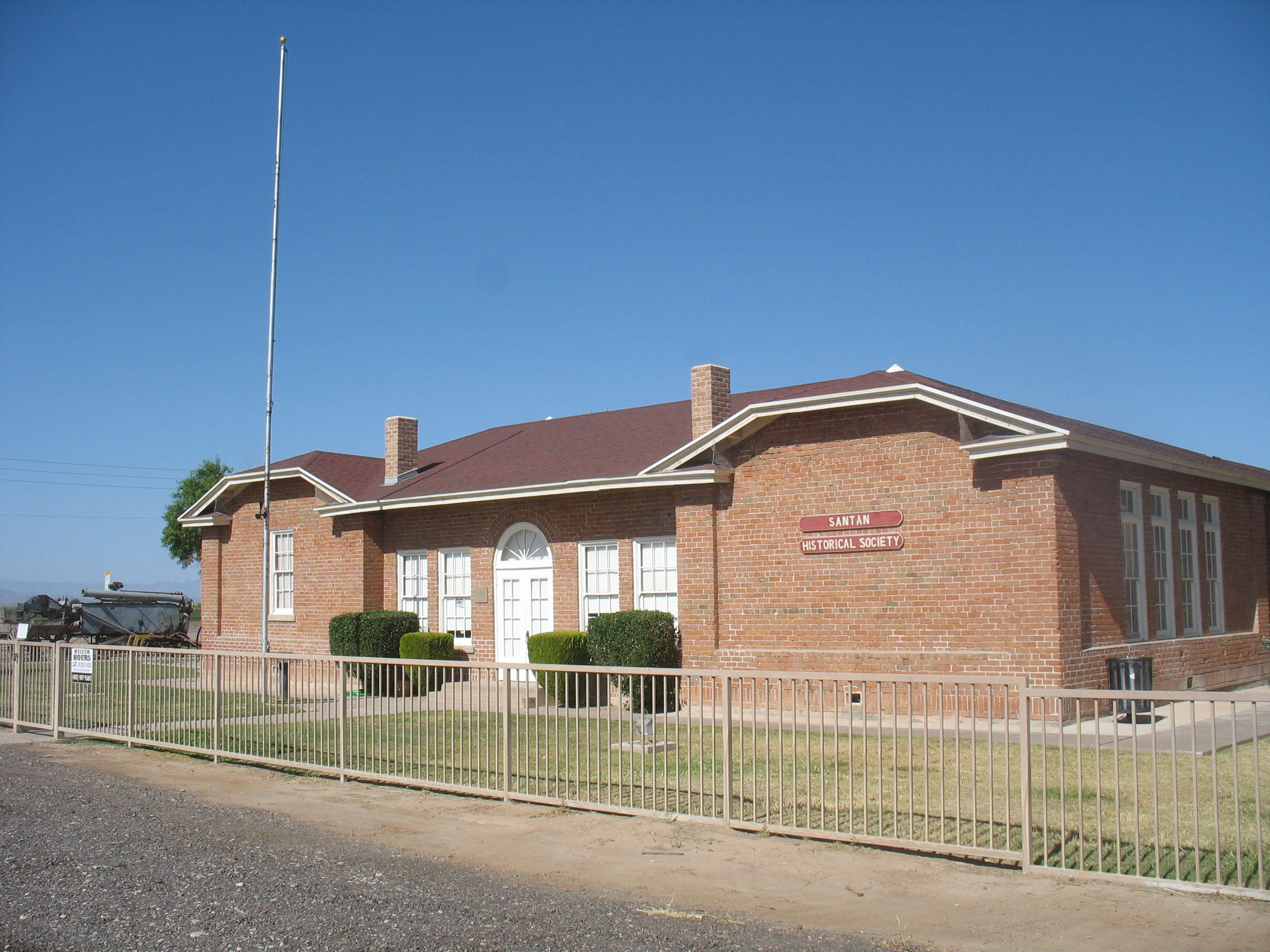 The Rittenhouse Elementary School exterior (facing north) — in Queen Creek, Maricopa County, Arizona.